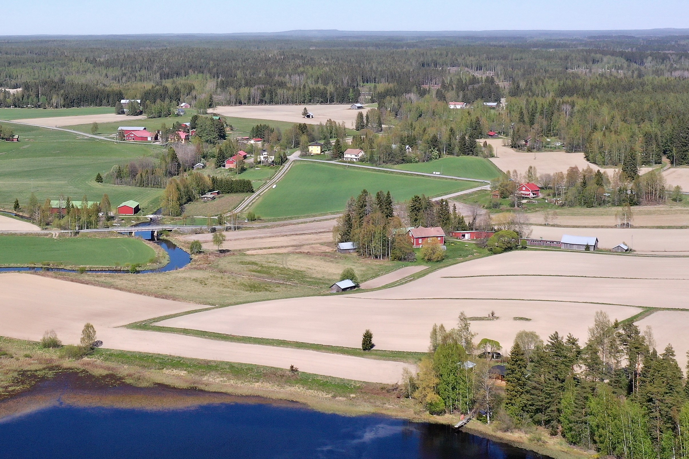 Taipale village in Sastamala, Finland